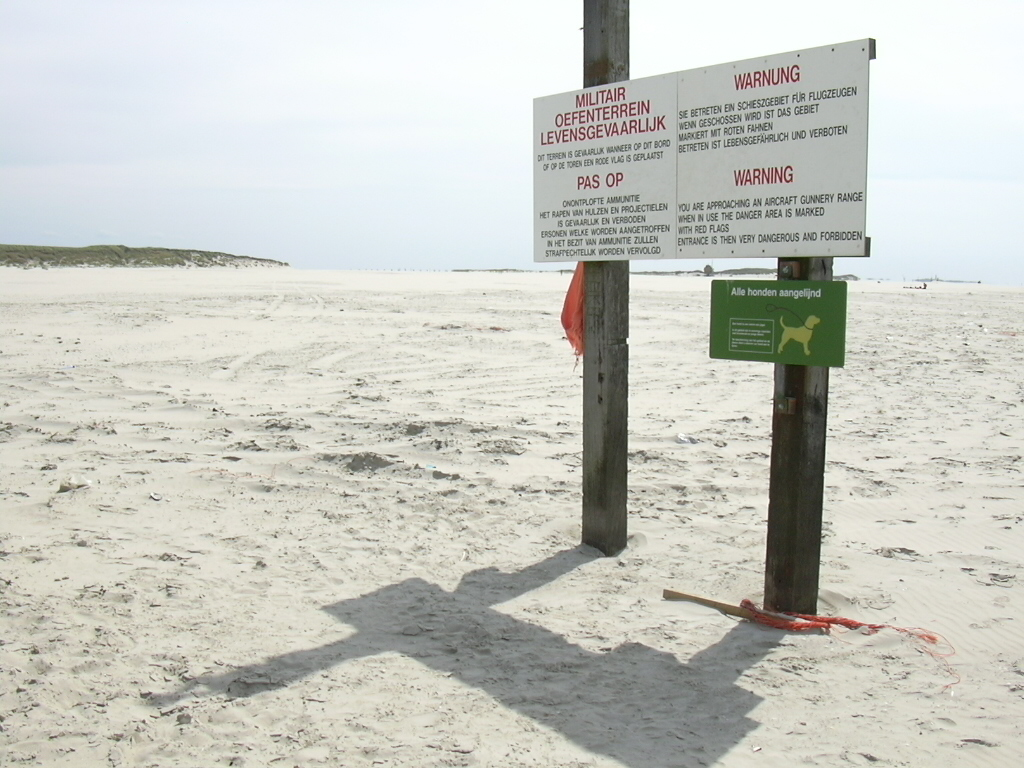 Warning sign for military exercise terrain "the Vliehors" at Vlieland.